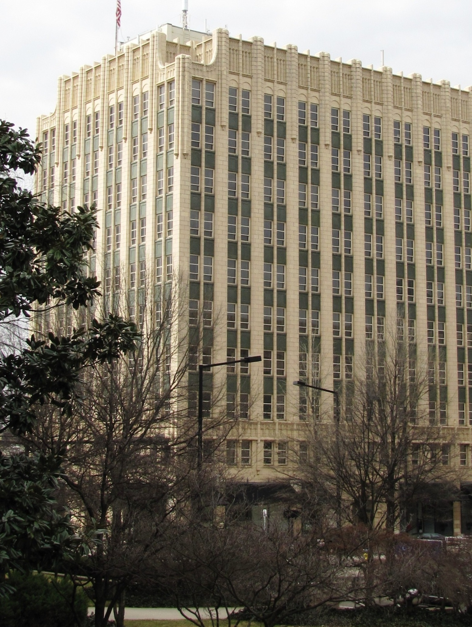 The Medical Arts Building Knoxville, Tennessee, USA, viewed from the First Baptist Church (southeast).